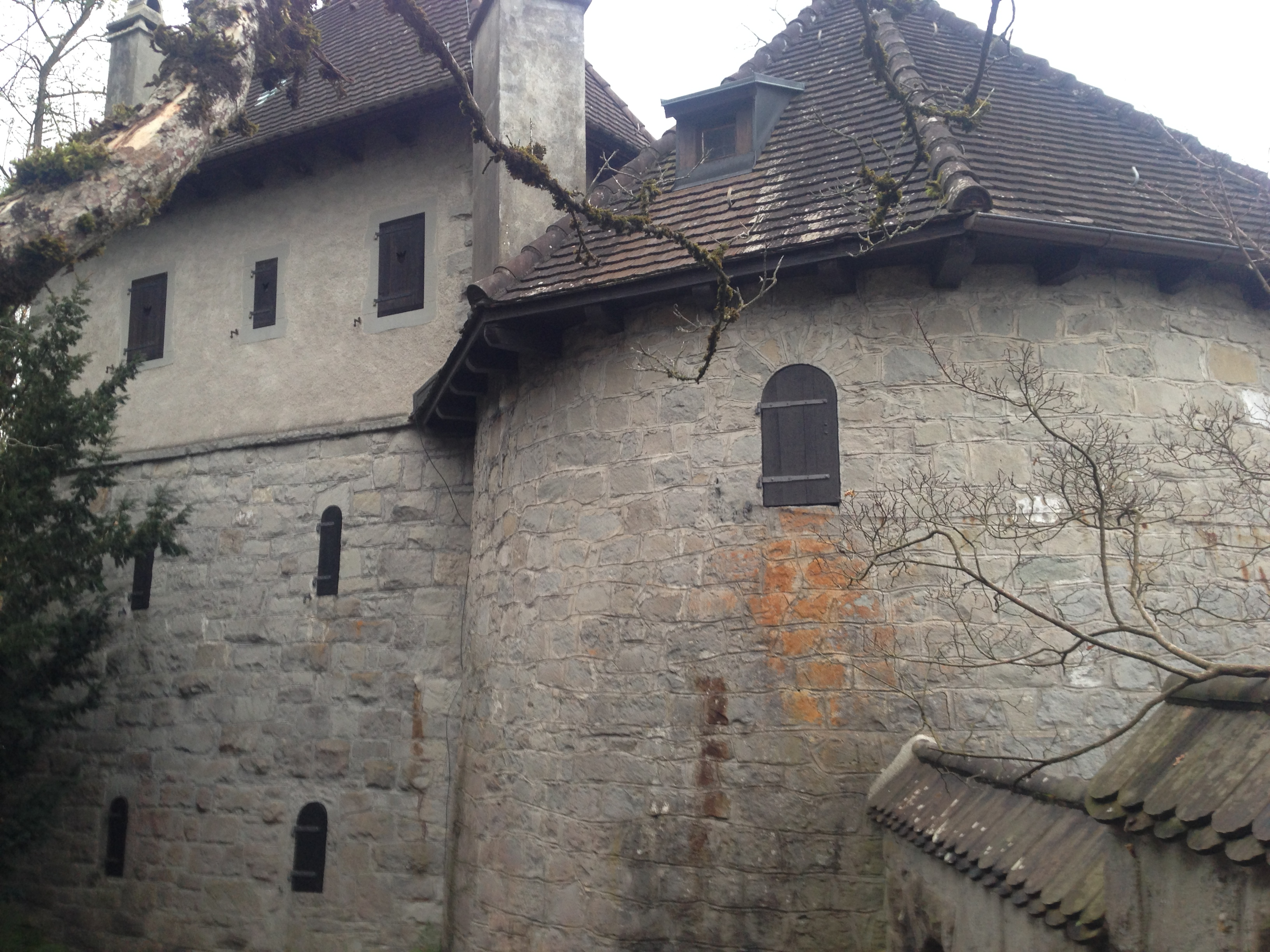 Bollingen Tower